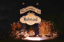 Welcome to Halstead's One Stop on the Web! We invite you to Surf N and discover the many unique things Halstead has to offer.